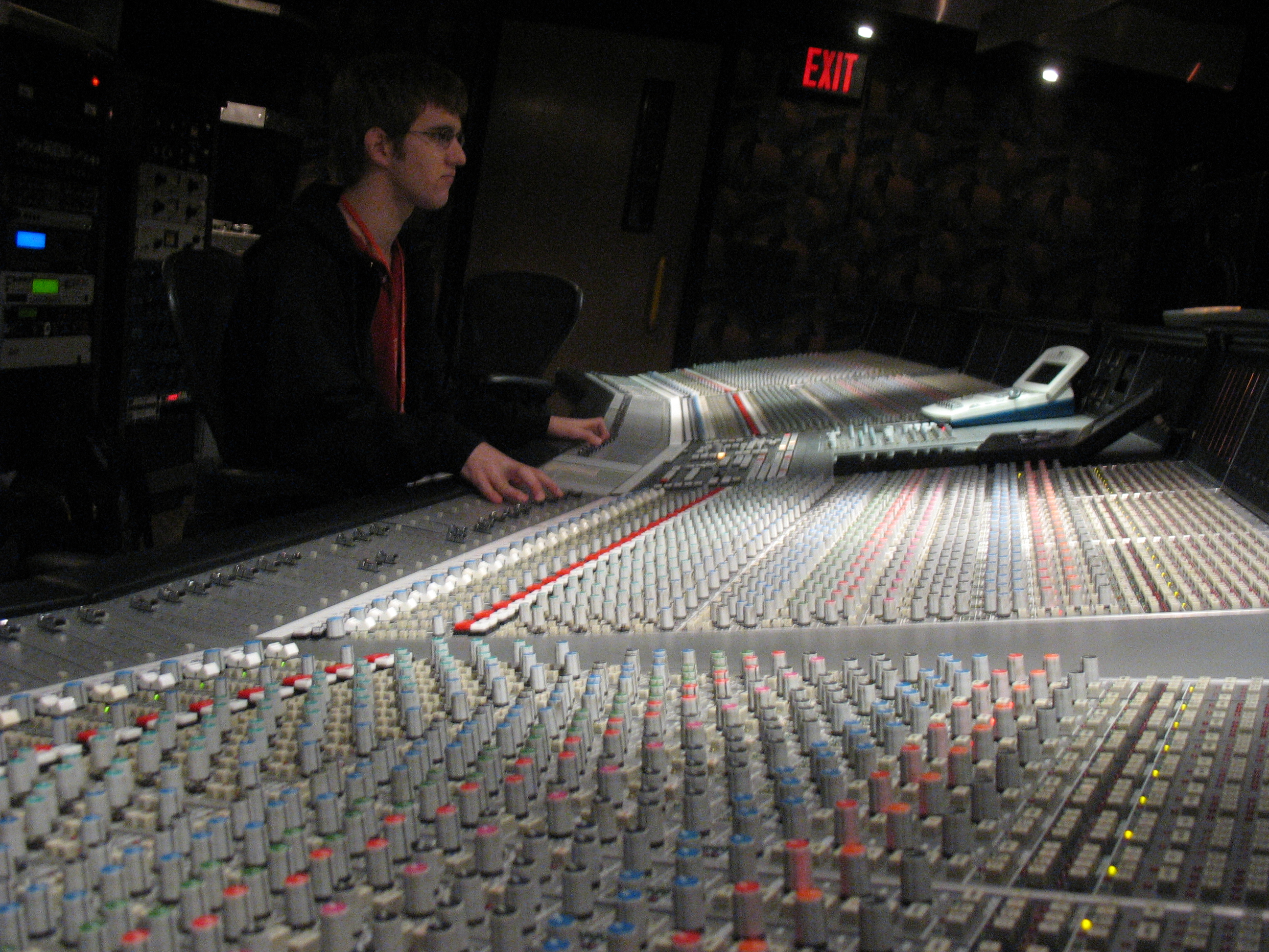 The SSL9000J console in use during a mixing session